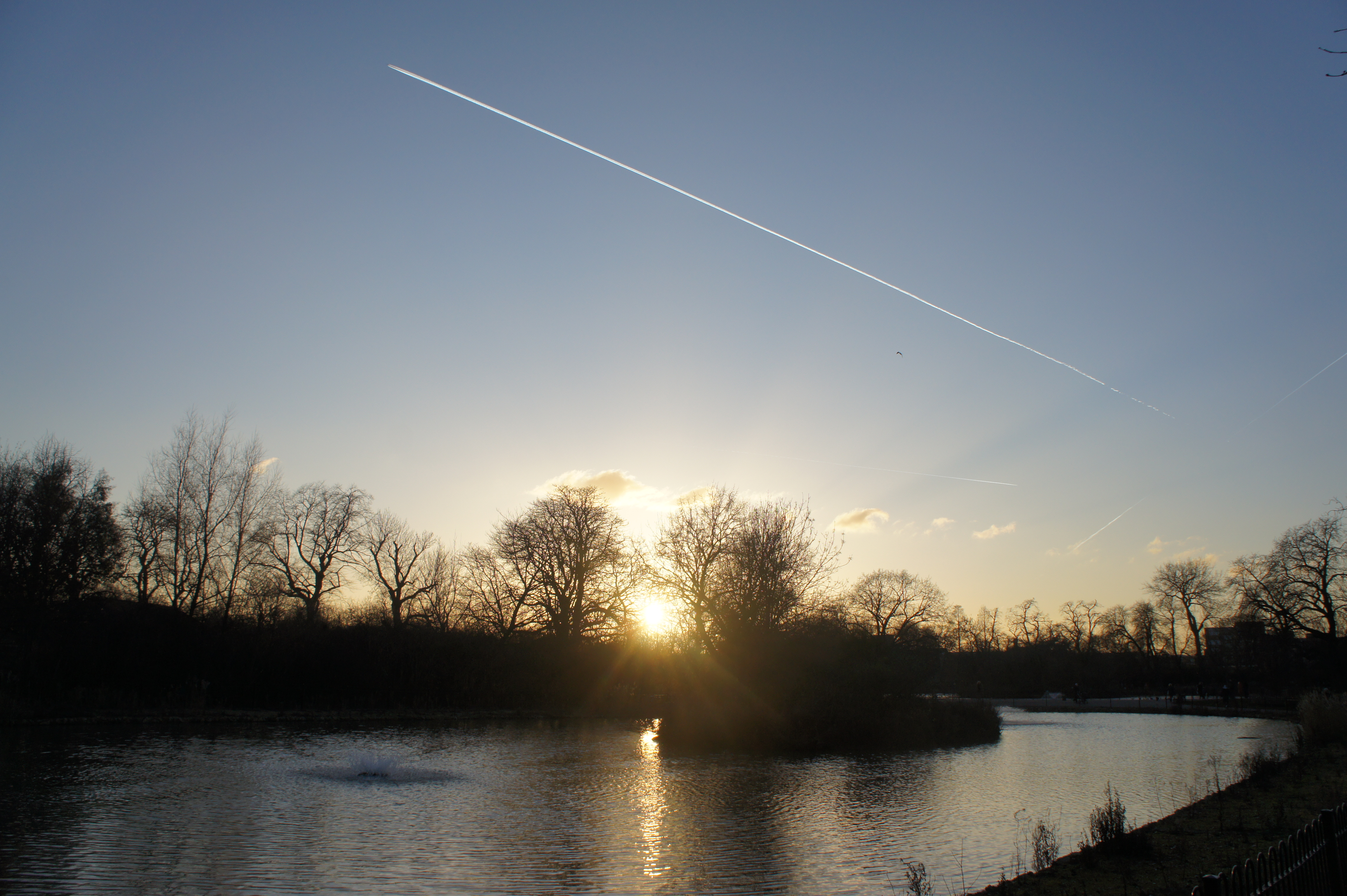 The sun sets over Clissold Park in the London Borough of Hackney in January 2012.